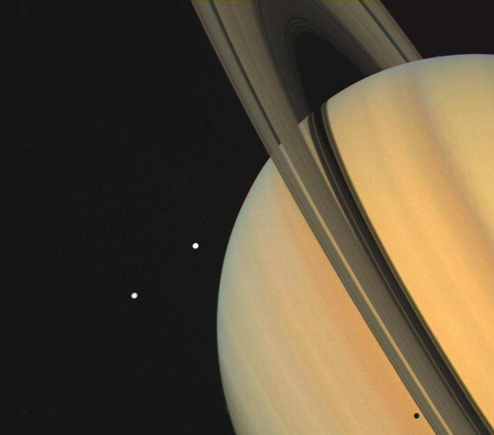 Saturn and two of its moons, Tethys (above) and Dione, were photographed by Voyager 1 on November 3, 1980, from 13 million kilometers (8 million miles). The shadows of Saturn's three bright rings and Tethys are cast onto the cloud tops. The limb of the planet can be seen easily through the 3,500-kilometer-wide (2,170 mile) Cassini Division, which separates ring A from ring B. The view through the much narrower Encke Division, near the outer edge of ring A is less clear. Beyond the Encke Division (at left) is the faintest of Saturn's three bright rings, the C-ring or crepe ring, barely visible against the planet.